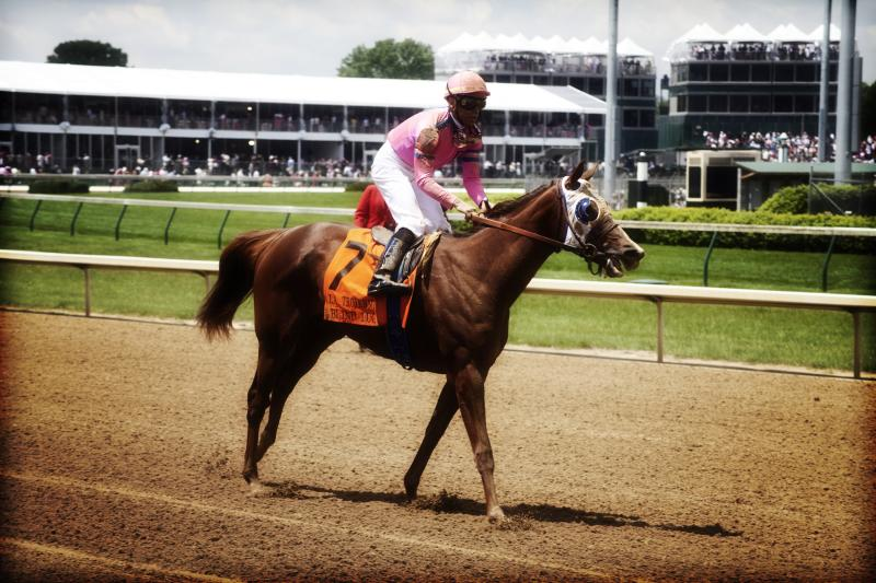 Oaks Day at the Kentucky Derby on May 5, 2011. Filly Blind Luck at 2011 La Troienne Stakes at Churchill Downs. She beat Unrivaled Belle to win after a stumble earlier in the race.